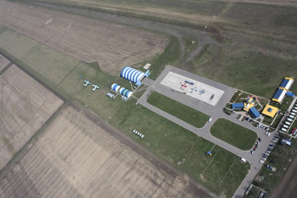 DZ "Mayskoe", Dnepropetrovsk, Ukraine